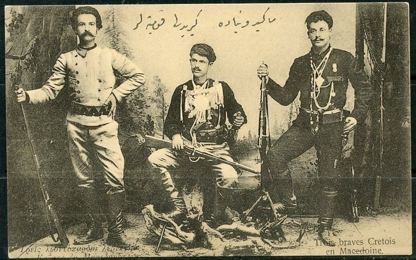 Greek andart captains Georgios Bakiras from Hania, Panayotis Geroyanis and Emanuil Likovardakisfrom Perivolaki